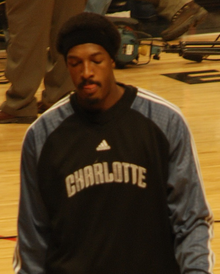 Gerald Wallace